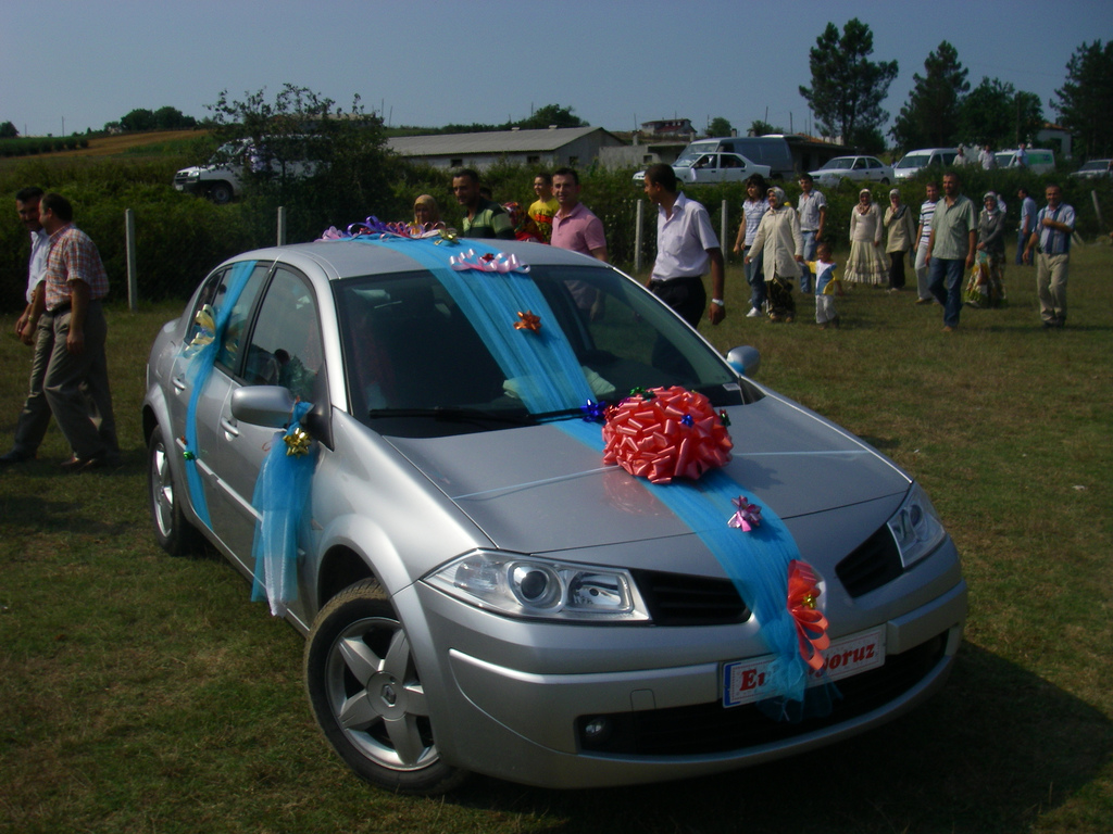 A bride's car at a wedding in Turkey. It is a usual custom in Turkey to decorate the cars for a wedding.